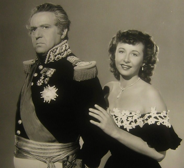 Hugo Haas & Vera Ralston in The Fighting Kentuckian - publicity still (cropped : see source)